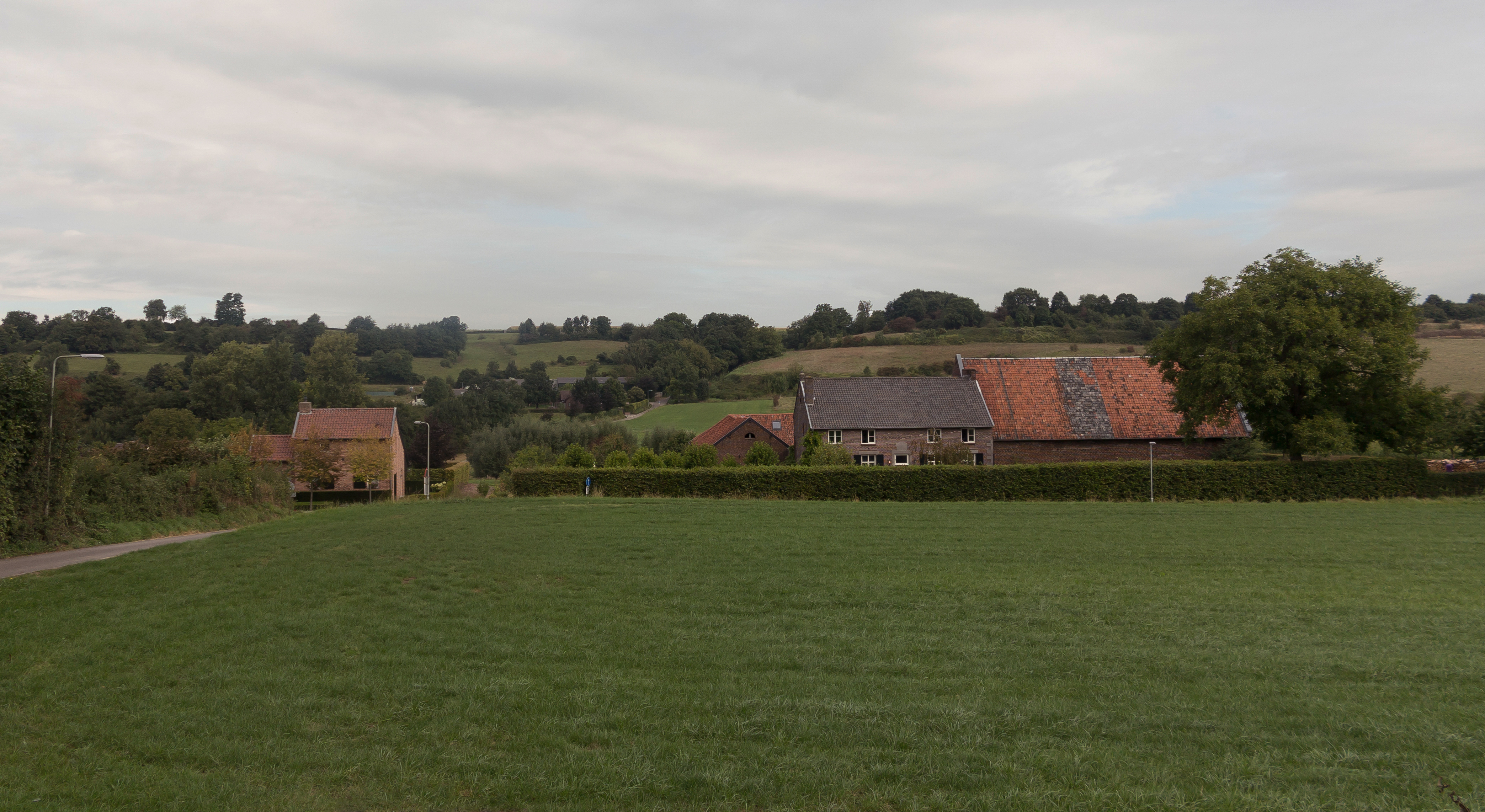 Wittem, Villa Lanterne in panorama